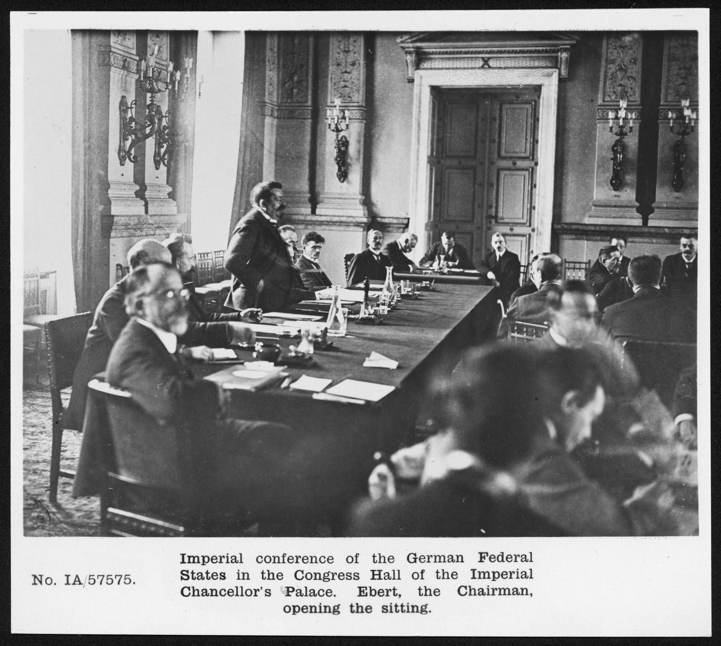 Imperial conference of the German Federal States in the Congress Hall of the Imperial Chancellor's Palace. Friedrich Ebert, Berlin, possibly 1918. This photograph shows Friedrich Ebert (1871-1925) addressing conference delegates from the different federal states of Germany. This is described as an imperial conference which suggests it took place before 9 November 1918, when the imperial system was abolished by the abdication of Kaiser Wilhelm II (1859-1941). Ebert, who had been a member of the Social Democratic Party in the Reichstag from 1912, became Chancellor at the time of the abdication. [Original reads: 'No. IA/57575. Imperial conference of the German Federal States in the Congress Hall of the Imperial Chancellor's Palace. Ebert, the Chairman, opening the sitting.']